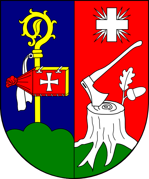 Coat of arms (shield only) of Bonifaz Sellinger, abbot of Schottenstift (Scottish Abbey), Vienna (1966 - 1988). Based on "Die Wappen der wiener Schottenäbte", p. 32 and on the painting in Schottenkeller